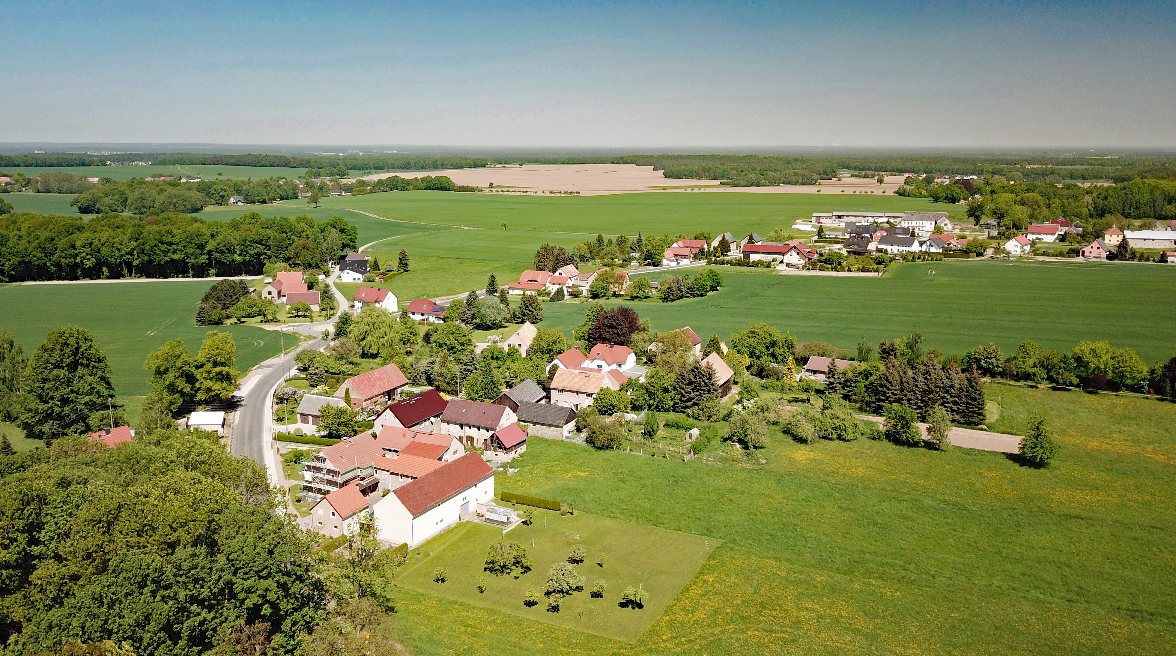 Neu-Jeßnitz (Puschwitz, Saxony, Germany) Hornjoserbsce: Powětrowy wobraz Noweje Jaseńcy